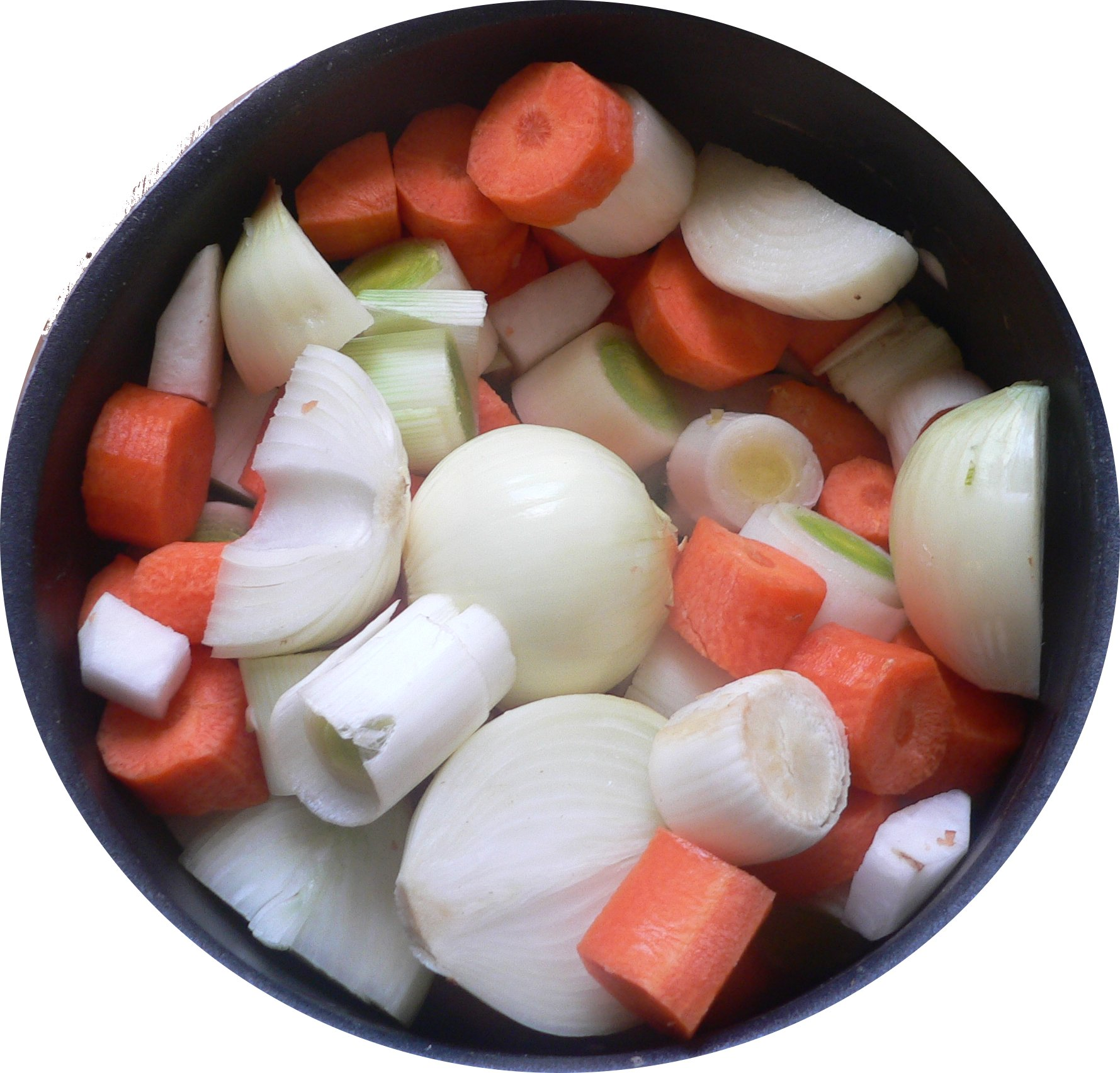 Vegetables to be cooked in a pot au feu: carrots, turnips, onions, garlic, leeks